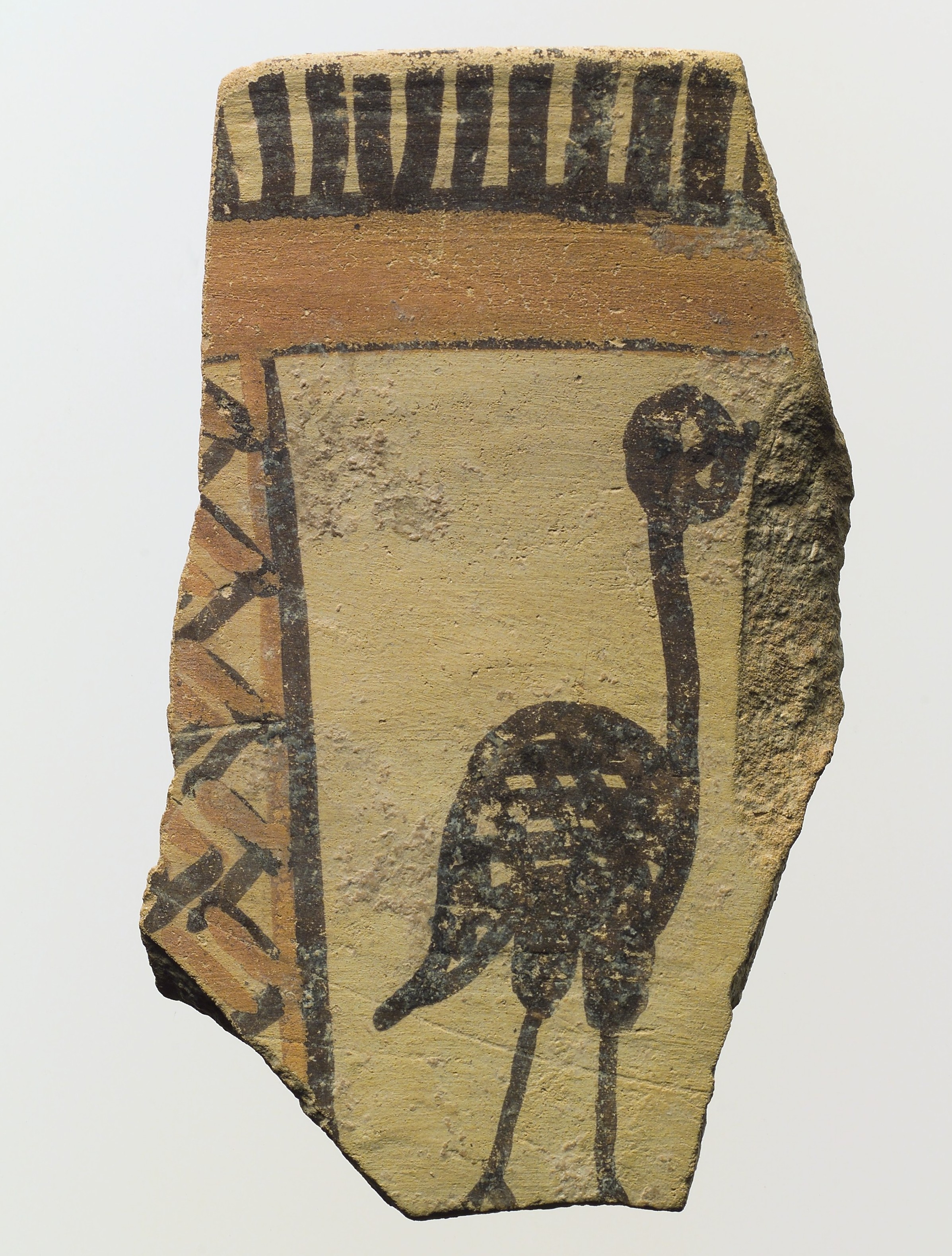 Halaf; Sherd; Ceramics-Vessels